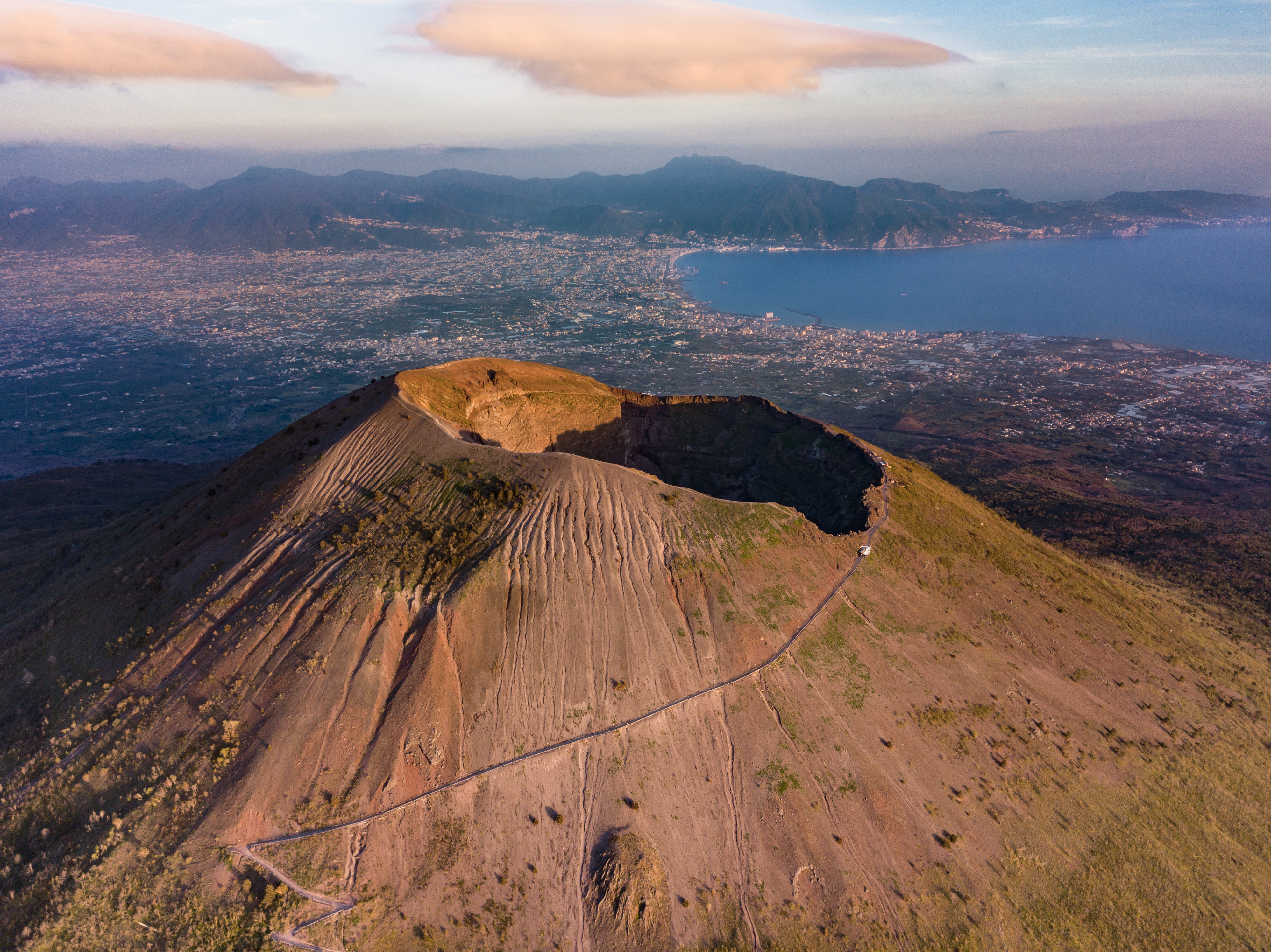 Cone of the Vesuvius, Neapolitan volcano.